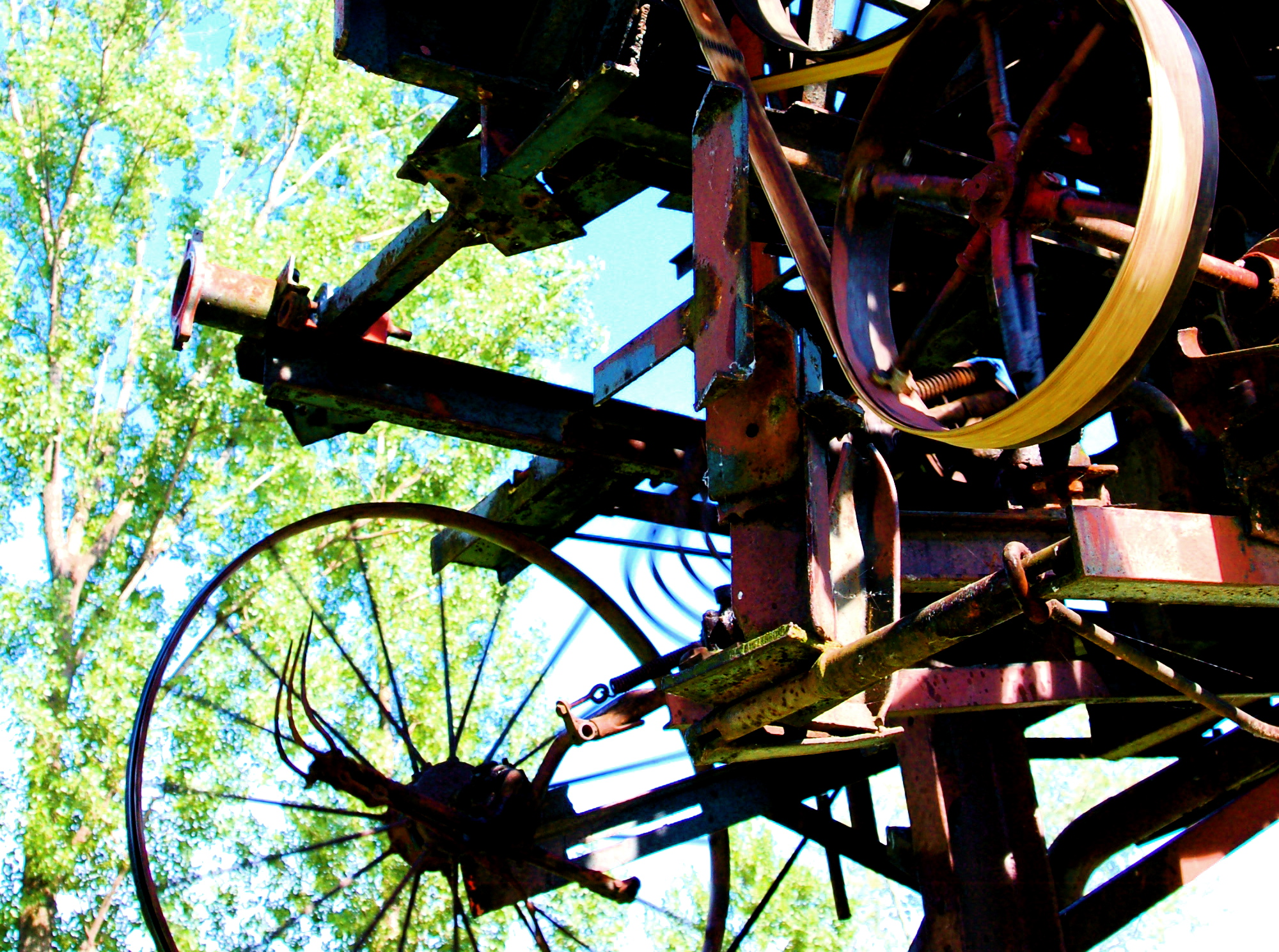 A kinetic sculpture entitled Heureka by Jean Tinguely ( on the shore of Lake Zurich. The sculpture is as much an auditory event as it is visual, with all the rusted whirrings of the gears, belts, wheels, and pulleys. I found a video (alas, no sound) on YouTube, which conveys some of the effect. Watch the video all the way to the end, the last few seconds convey the scale of the machine. It was interesting trying to photograph the sculpture, because there is so much going on. I decided to take a few shots of the gears I like the most. I found it impossible to take a picture of the entire machine that captured enough of the details that made it interesting. Just now I browsed around Flickr to see if I could find a macro view of the sculpture I liked, and I like this one.